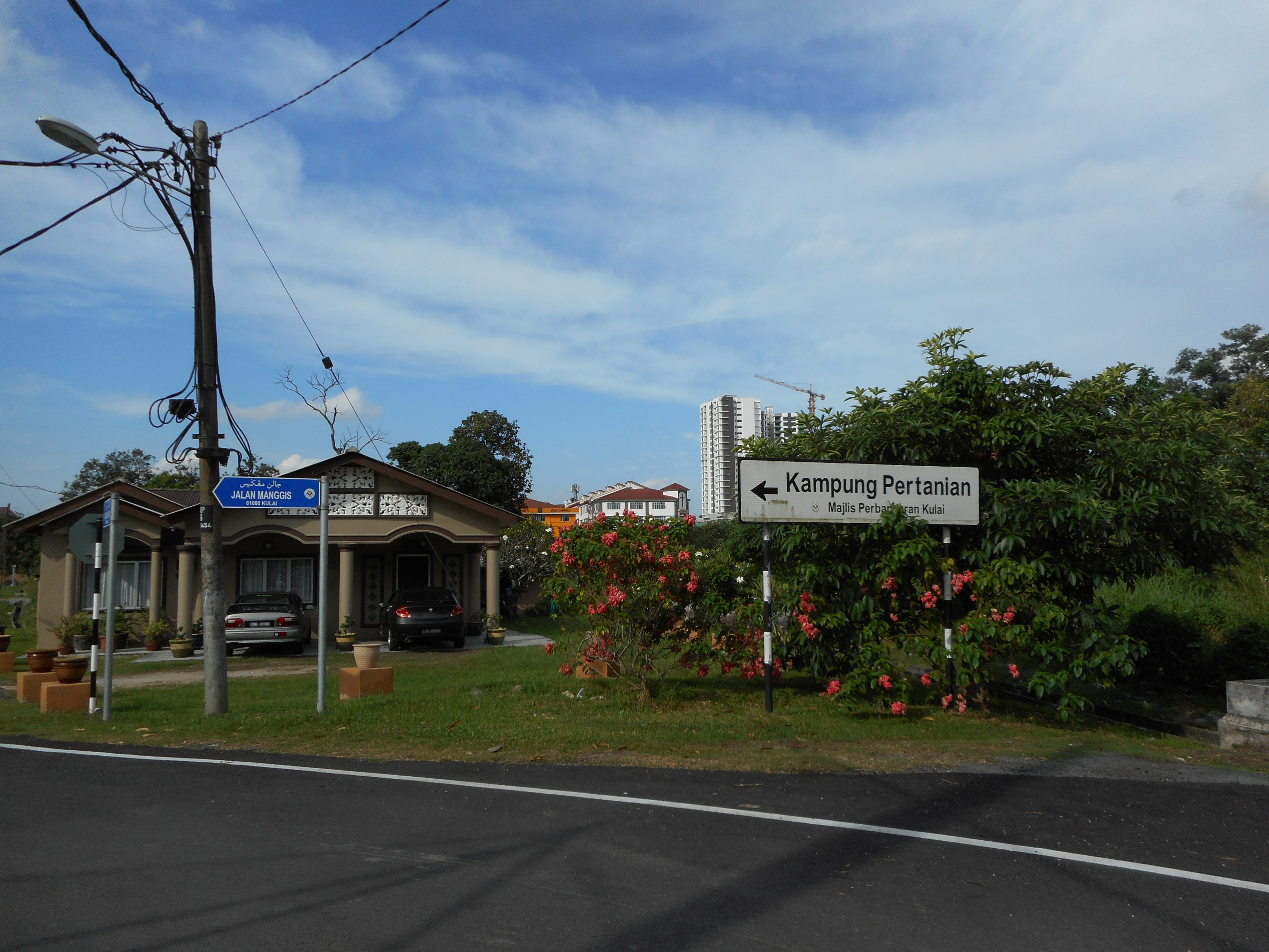 Pertanian Village, Kulai, Johor, Malaysia